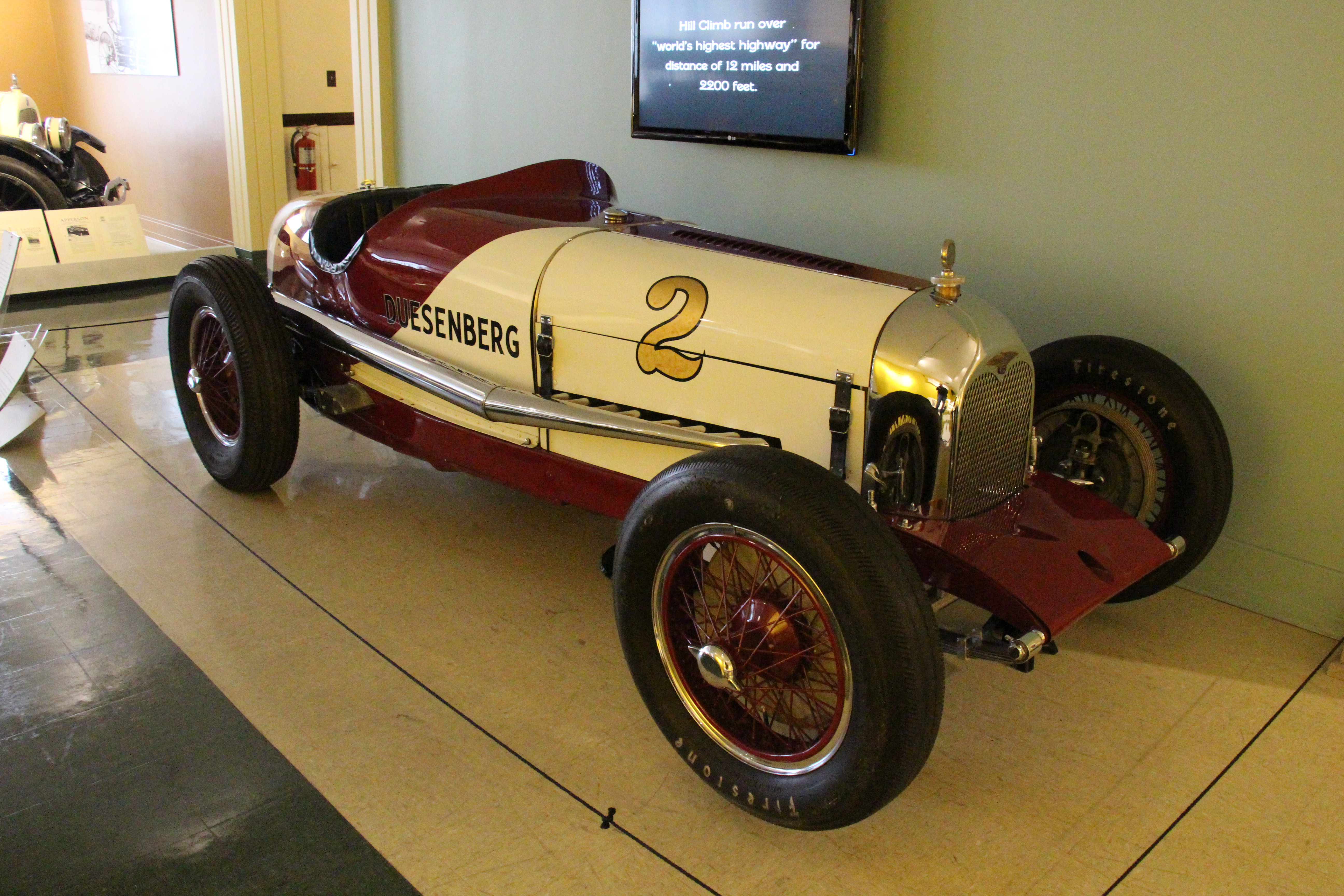 This Duesenberg race car raced in nine Indianapolis 500 races from 1927 to 1937 Photographed at the Auburn, Cord, Duesenberg Museum, Auburn